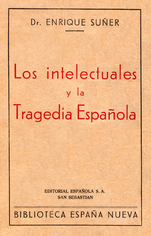 Book cover "Los intelectuales y la Tragedia Española" (1938) of Enrique Suñer Ordóñez